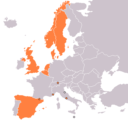 European monarchies